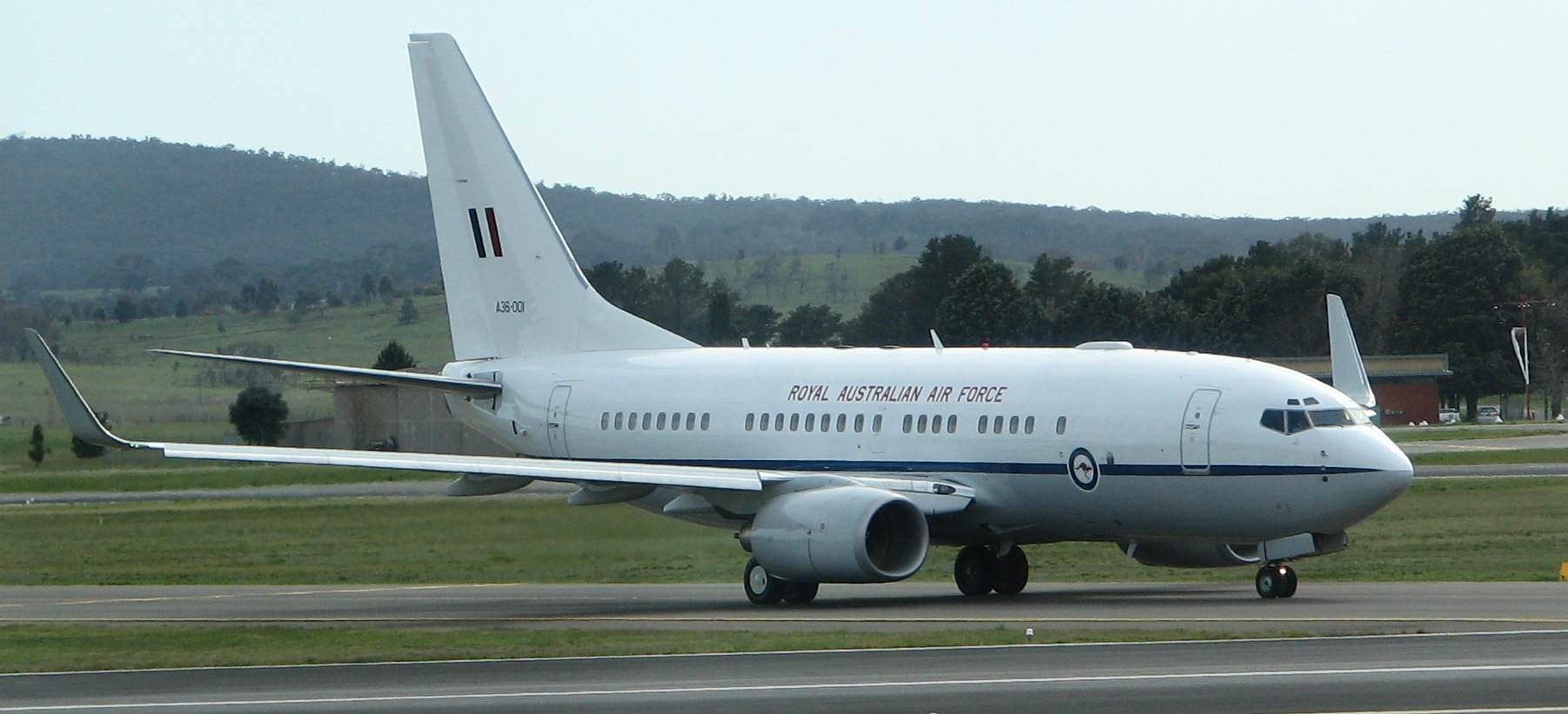 RAAF VIP Transport Boeing Business Jet A36-001 taxiing for takeoff at Canberra International Airport 1 October 2005.